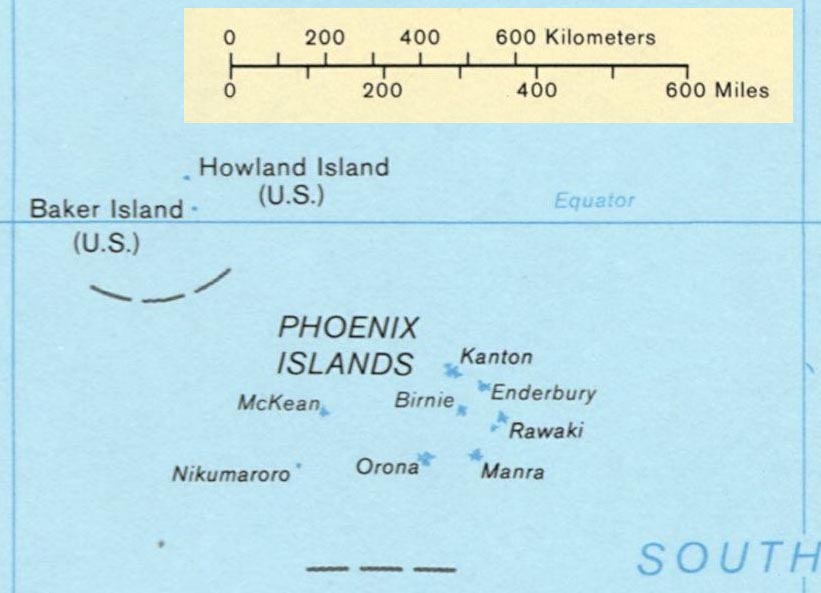 Map of the Phoenix Islands, Kiribati